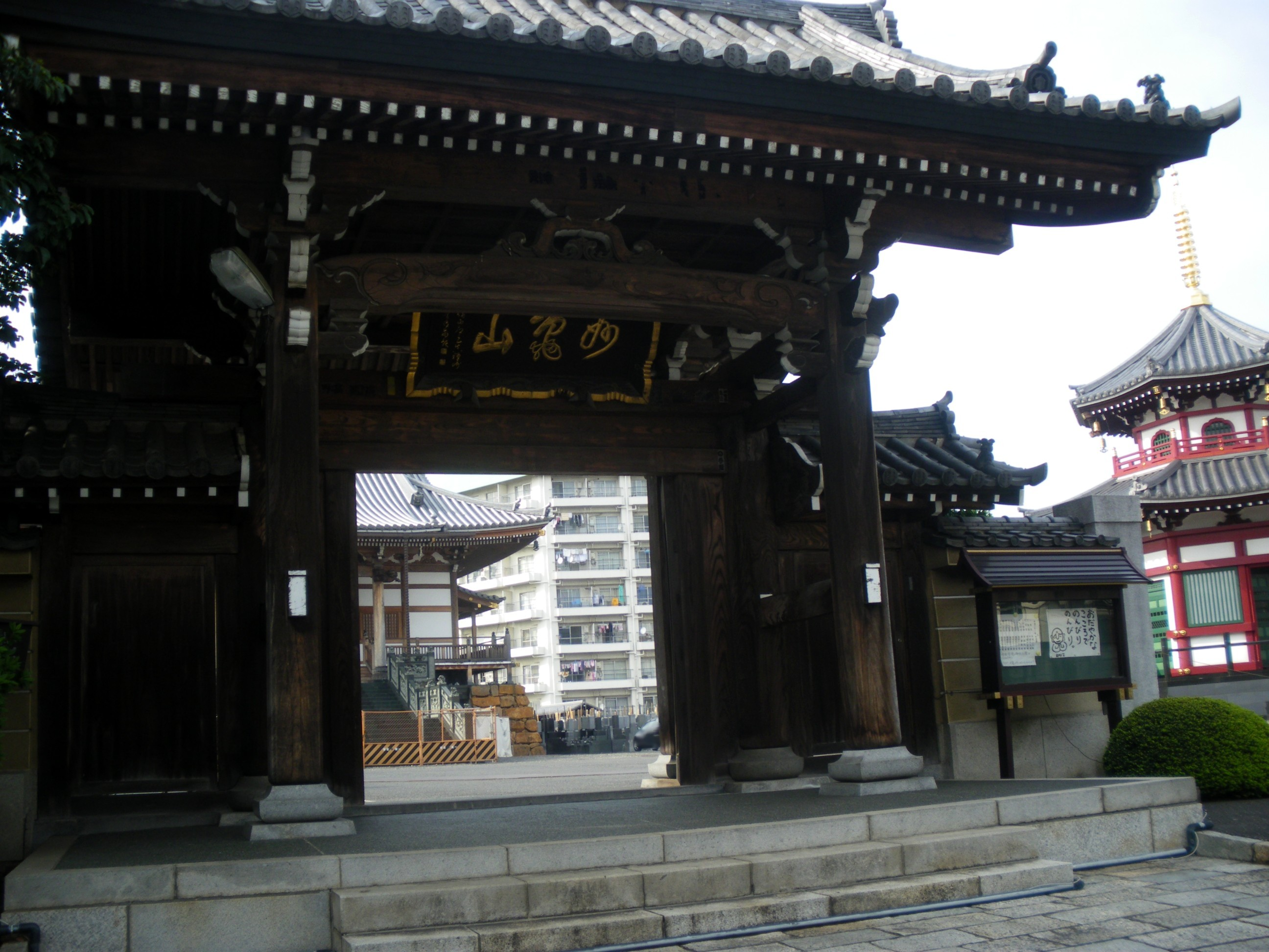 Sosenji Temple(Azusawa,Itabashi,Tokyo)